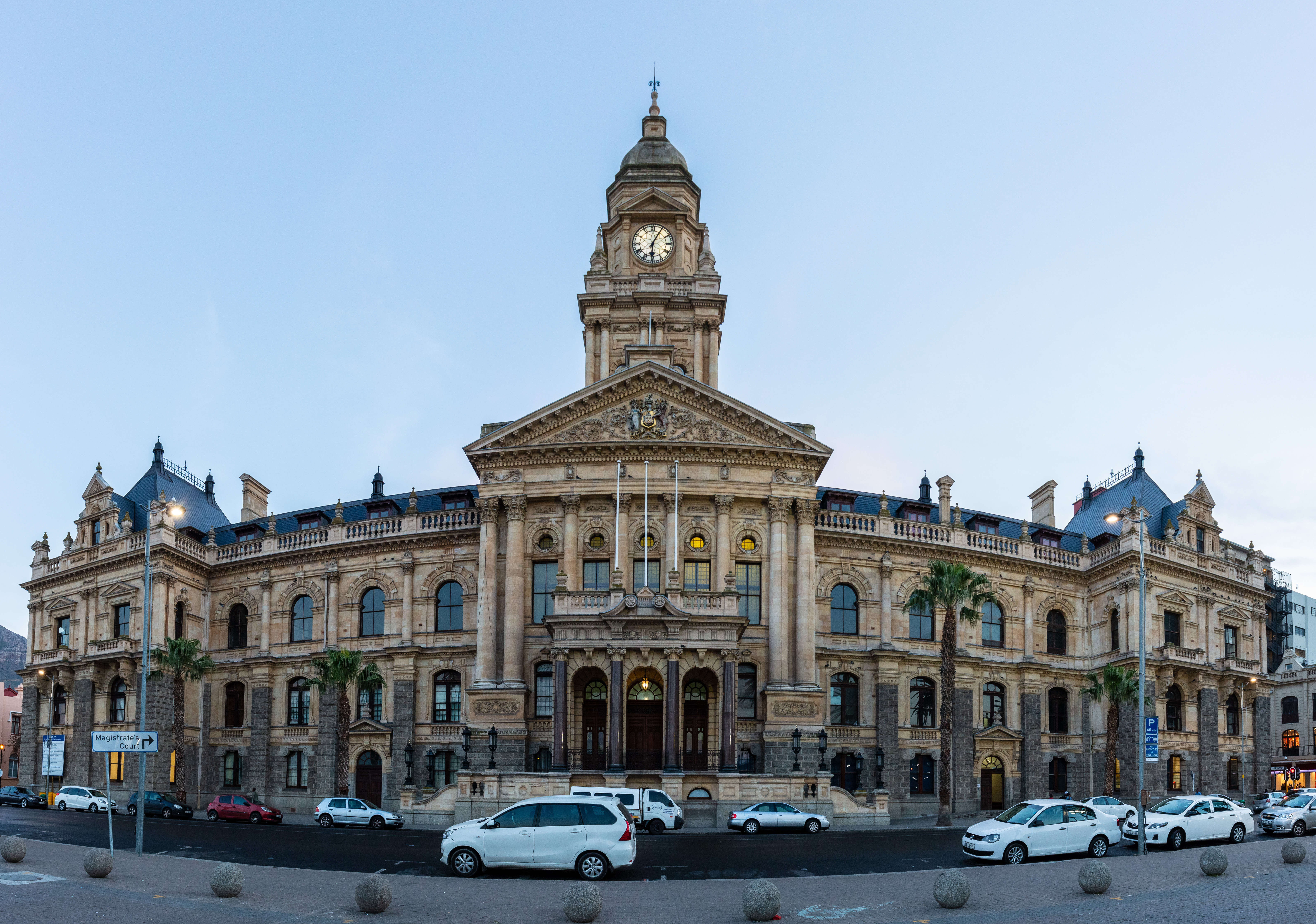 Cylindrical projection panorama of Cape Town City Hall, South Africa